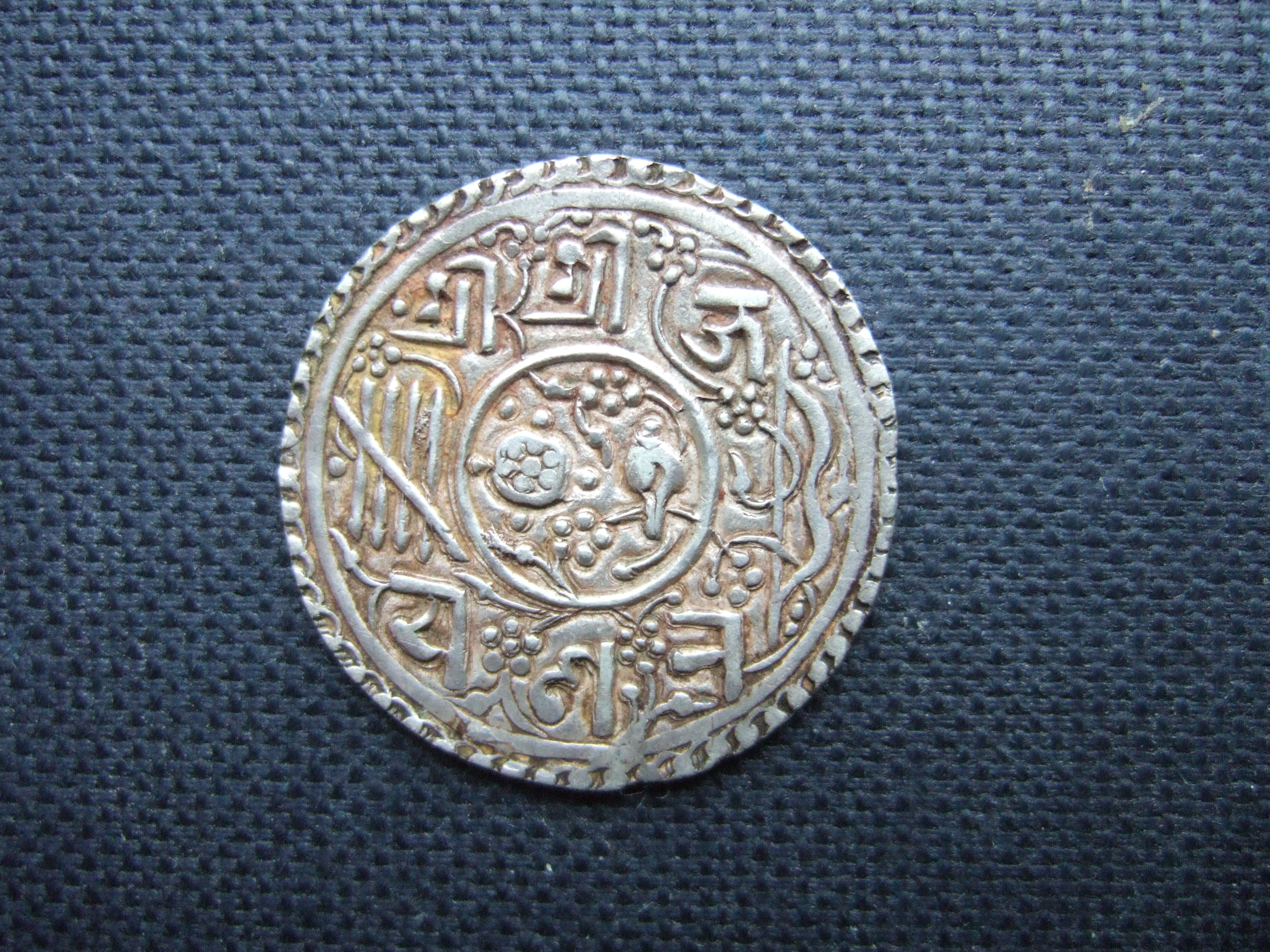 Mohur of king Ranjit Malla of Bhaktapur (Nepal), dated Nepal Samvat 842 (=AD 1722).Obverse